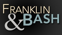 The logo for the American television series Franklin & Bash